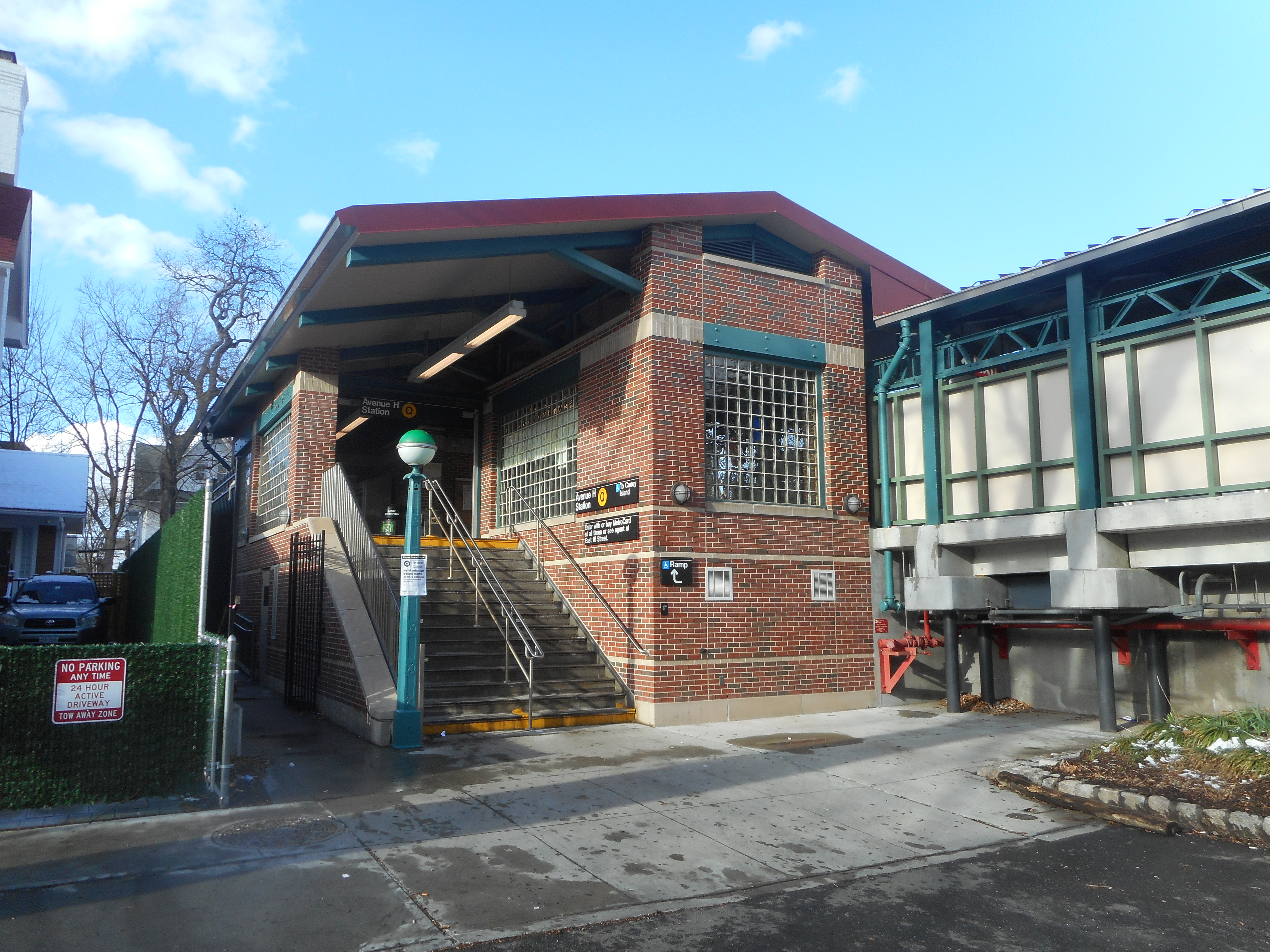 Images somewhat related to the contemporary southbound station entrance of the Avenue H (BMT Brighton Line) station, as opposed to the NYCL-listed northbound entrance around the Midwood, Flatbush, and Fiske Terrace sections of Brooklyn, New York City. Further details to come later.